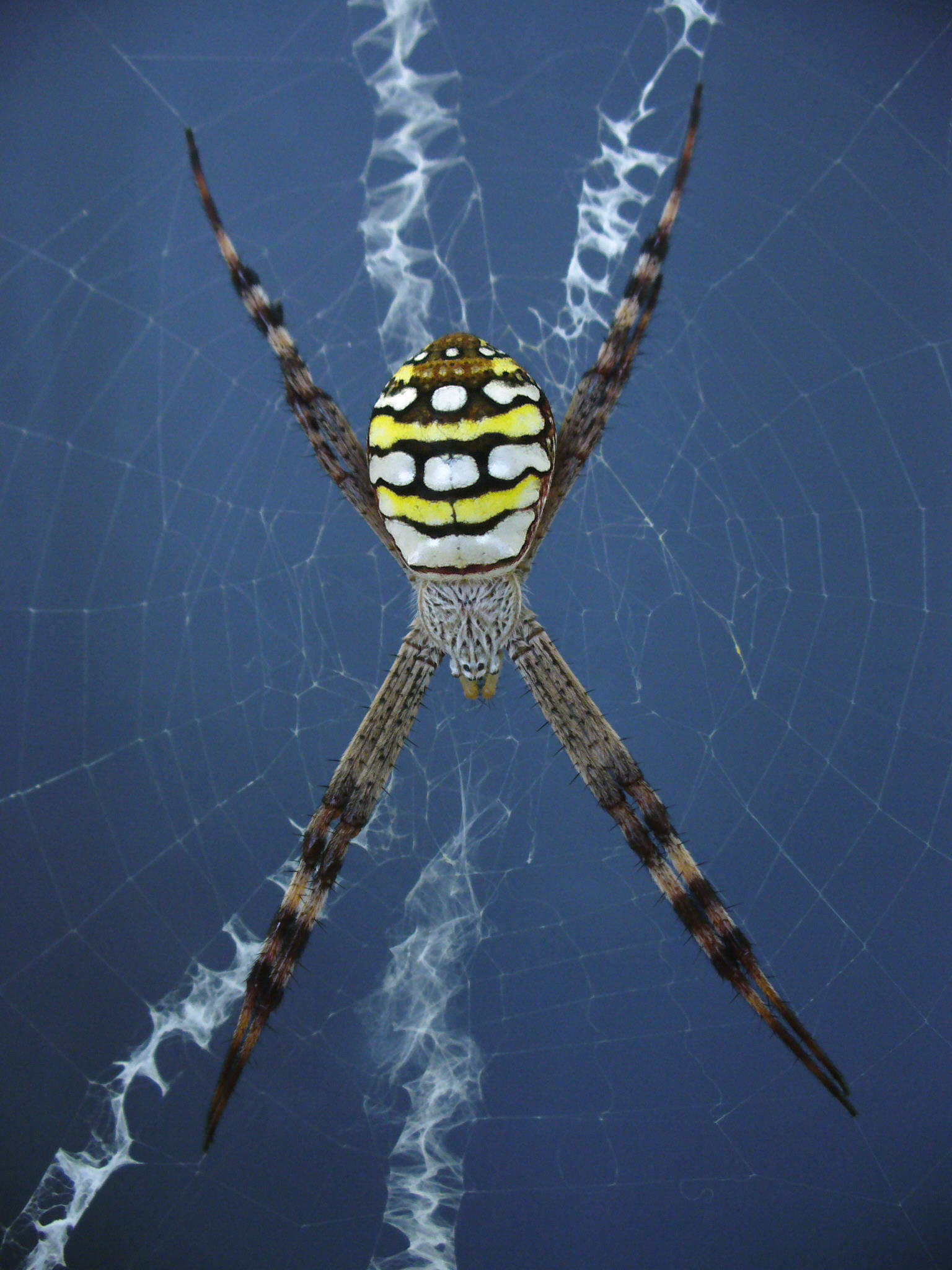 Female Argiope picta in the lab. Originally collected in Cape Tribulation/Queensland, Australia.